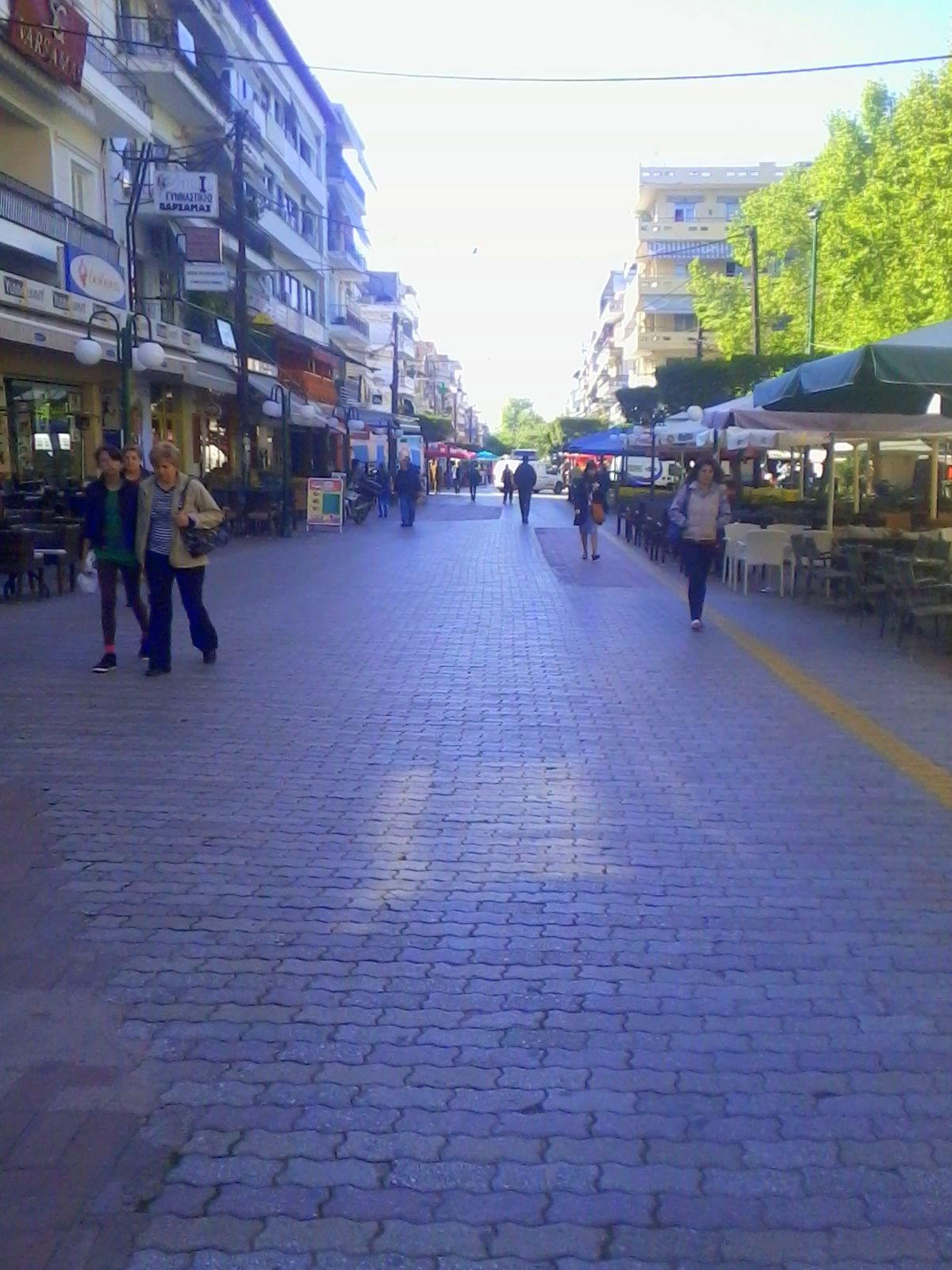 Pezodromos Giannitsa